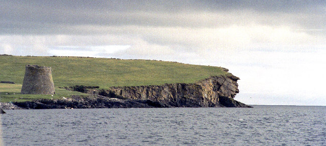 Mousa Broch. The broch seen as the ferry approaches its landing on the island.